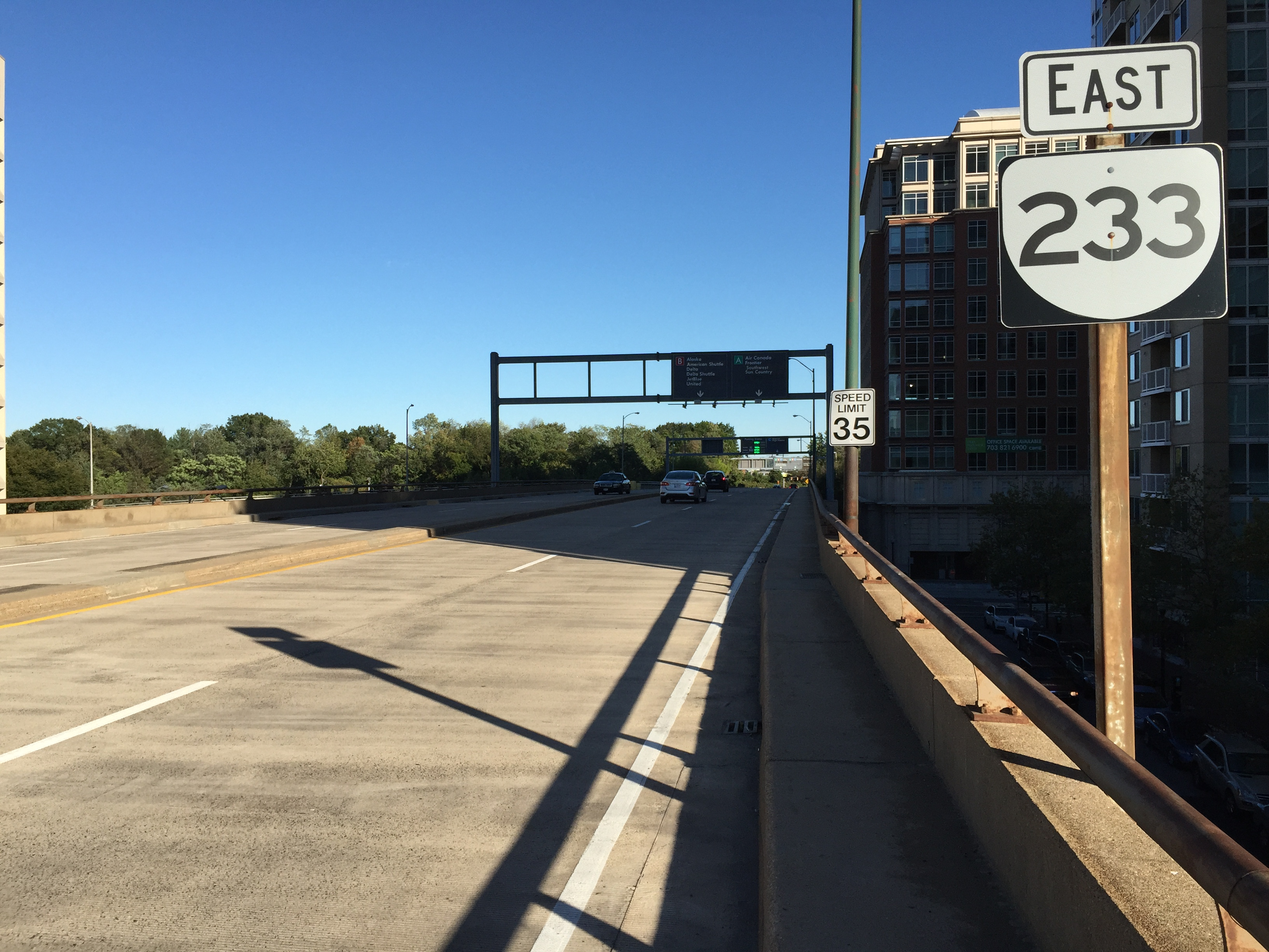 View east along Virginia State Route 233 (Airport Viaduct) in Crystal City, Arlington County, Virginia